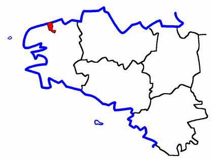 Description: Map for localisazion of cantons of Bretagne region in France Source: made by Hervé Tigier in april 2005 from another large map (published in 1990)